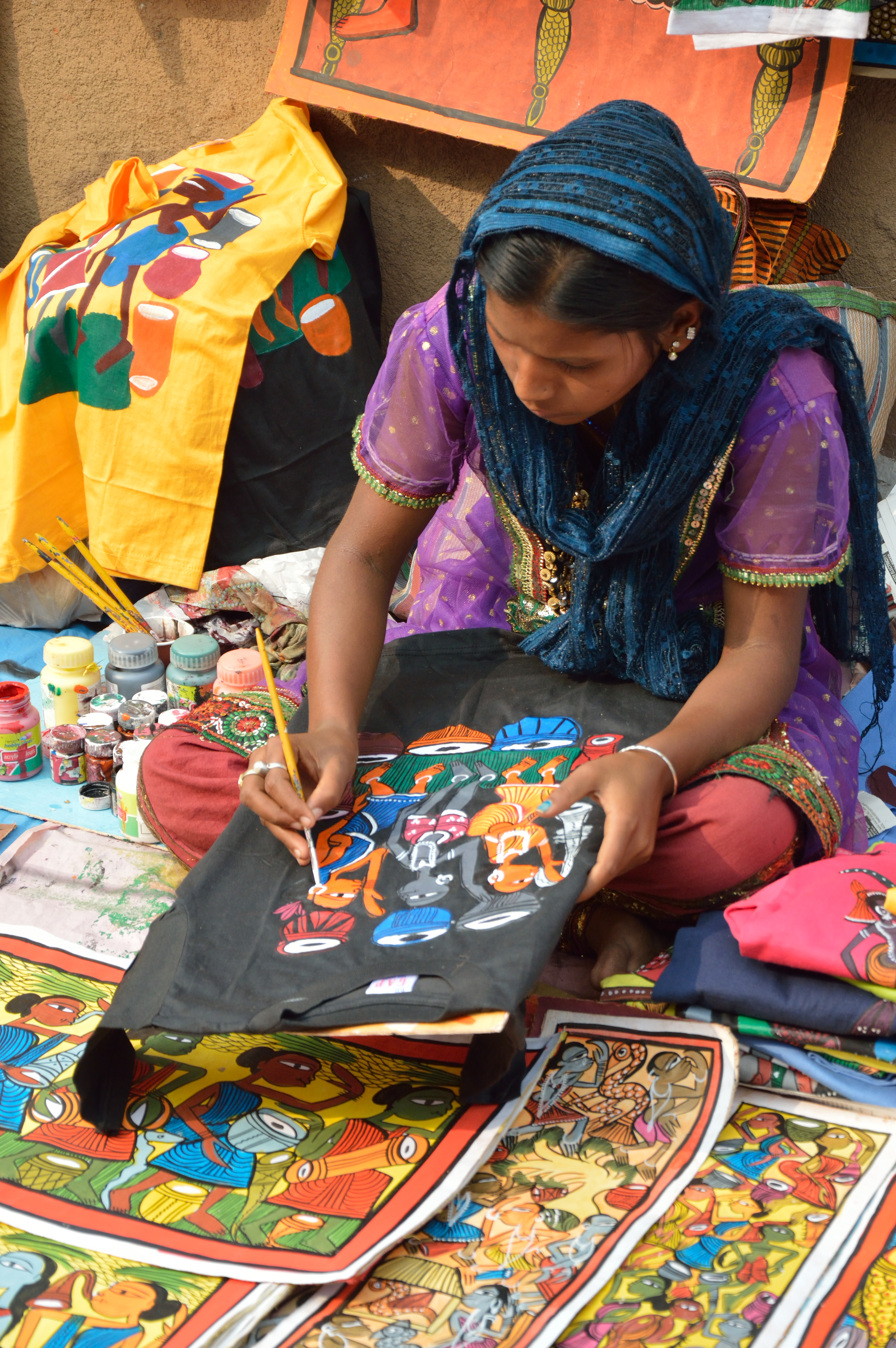 The International Kolkata Book Fair (Old name: Calcutta Book Fair in English, and officially Kolkata Boimela or Kolkata Pustakmela in romanized Bengali), is a winter fair in Kolkata. It is a unique book fair in the sense of not being a trade fair - the book fair is primarily for the general public rather than whole-sale distributors. It is the world's largest non-trade book fair, Asia's largest book fair and the most attended book fair in the world. The fair took place at ‘Milan Mela’ ground, opposite of ‘Science City’, Kolkata.